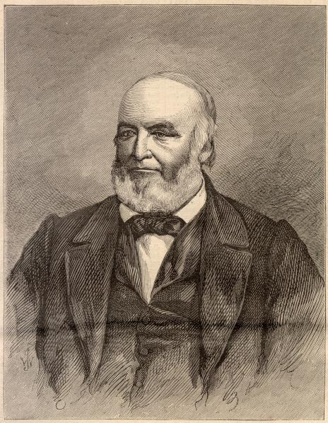 Woodcut from Harpers Weekly, December 26, 1863. Based upon a photograph of Governor-Elect Brough taken by O. Willard.